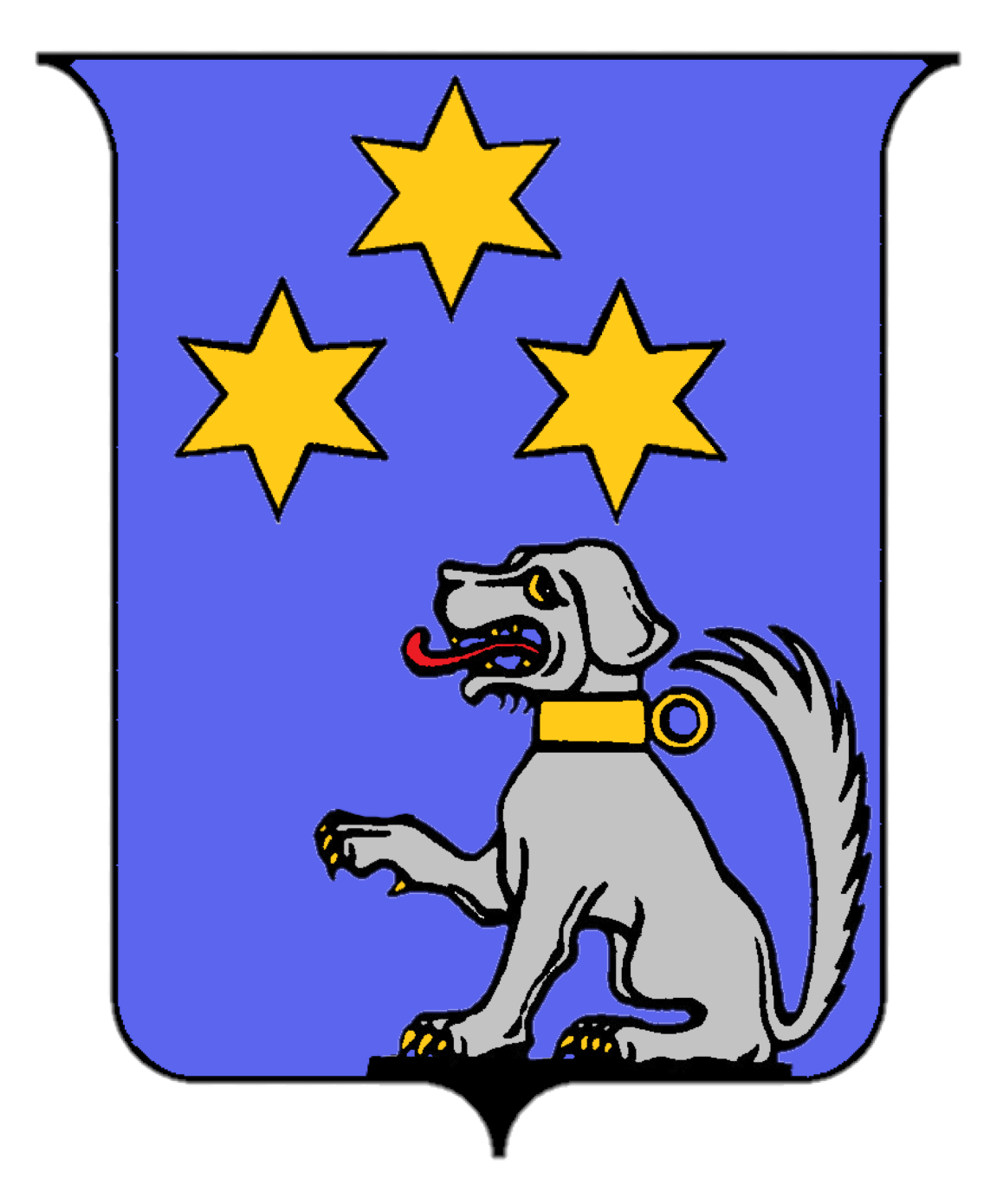 The arms of the Castellini family.